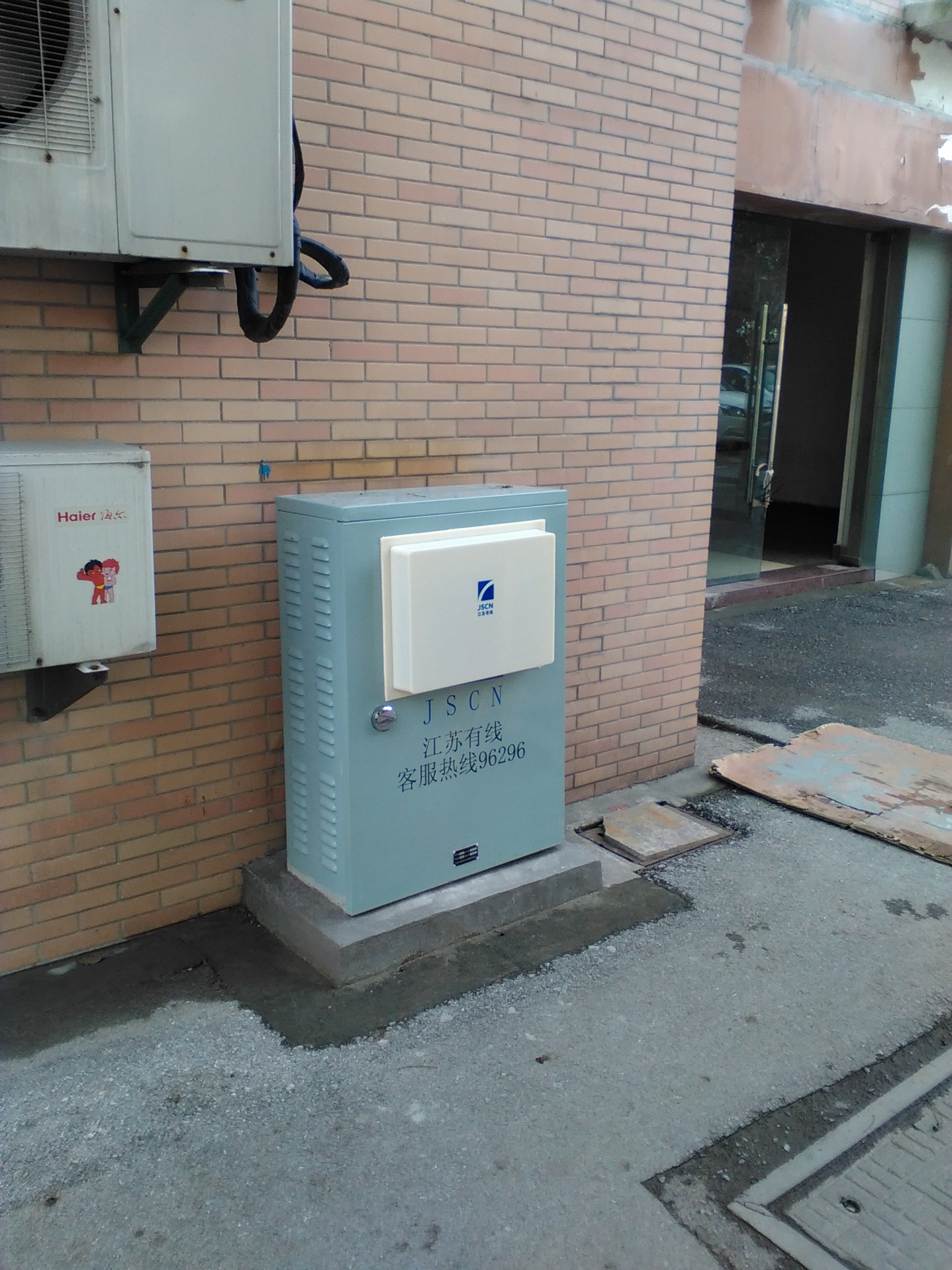 A wire box of JSCN (Jiangsu Broadcasting Cable Information Network Corporation Limited), located in Suzhou 中文（中国大陆）: 江苏有线线箱（现行样式），摄于苏州一小区